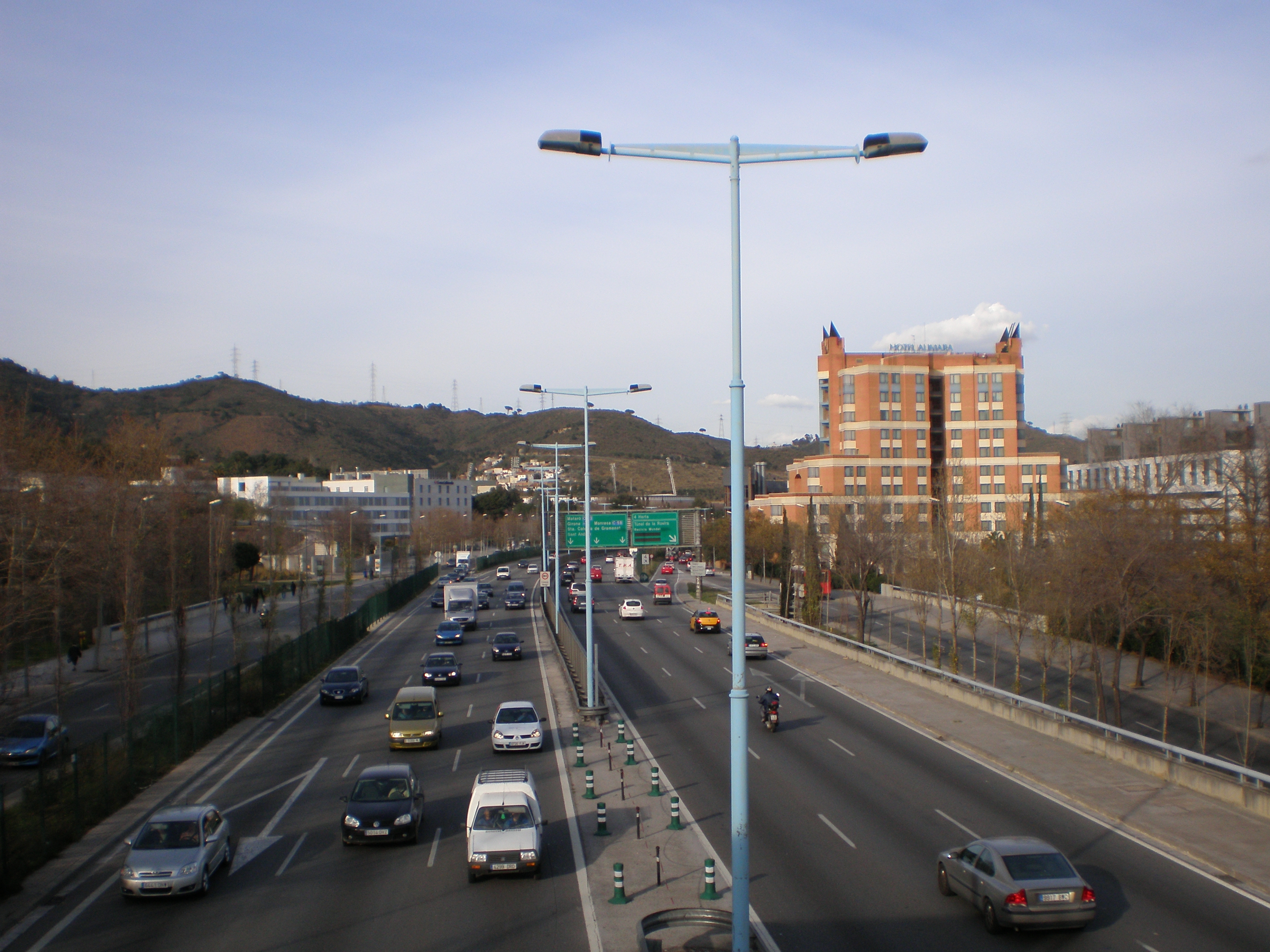 B-20 motorway (Spain). Barcelona.